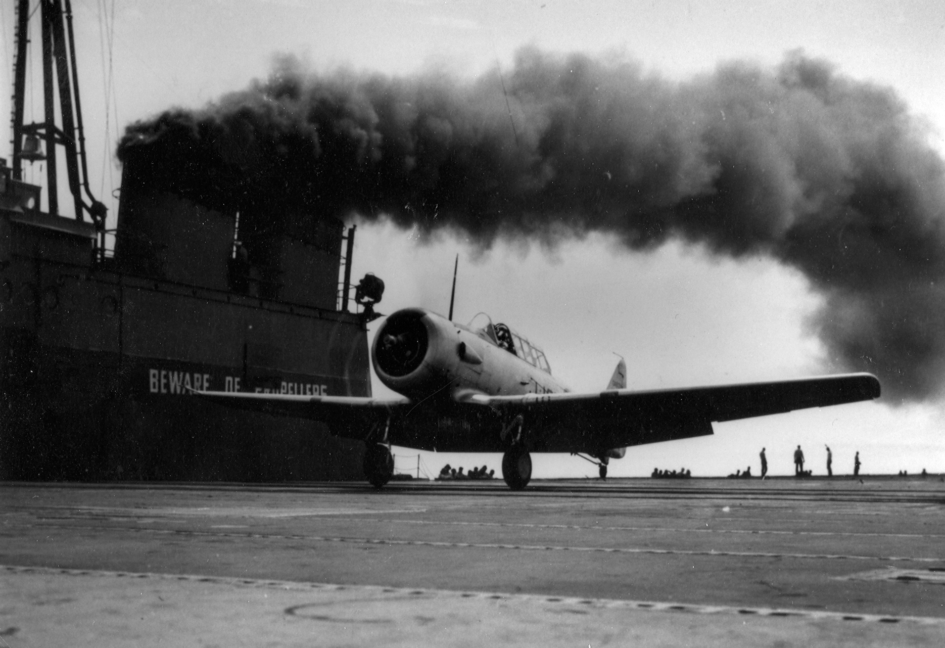 The U.S. Navy training carrier USS Sable (IX-81) recovers an North American SNJ-5C Texan while underway in Lake Michigan, in 1945.